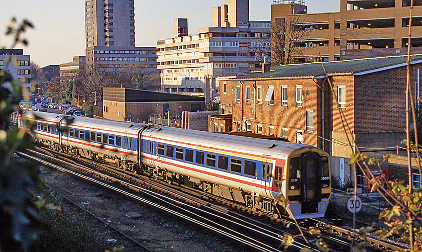 BR class 159 set 019, consisting of vehicles 52891+58736+57891 in Network SouthEast livery, leaving Southampton Central station. Scanned from a Fujichrome 35mm slide.